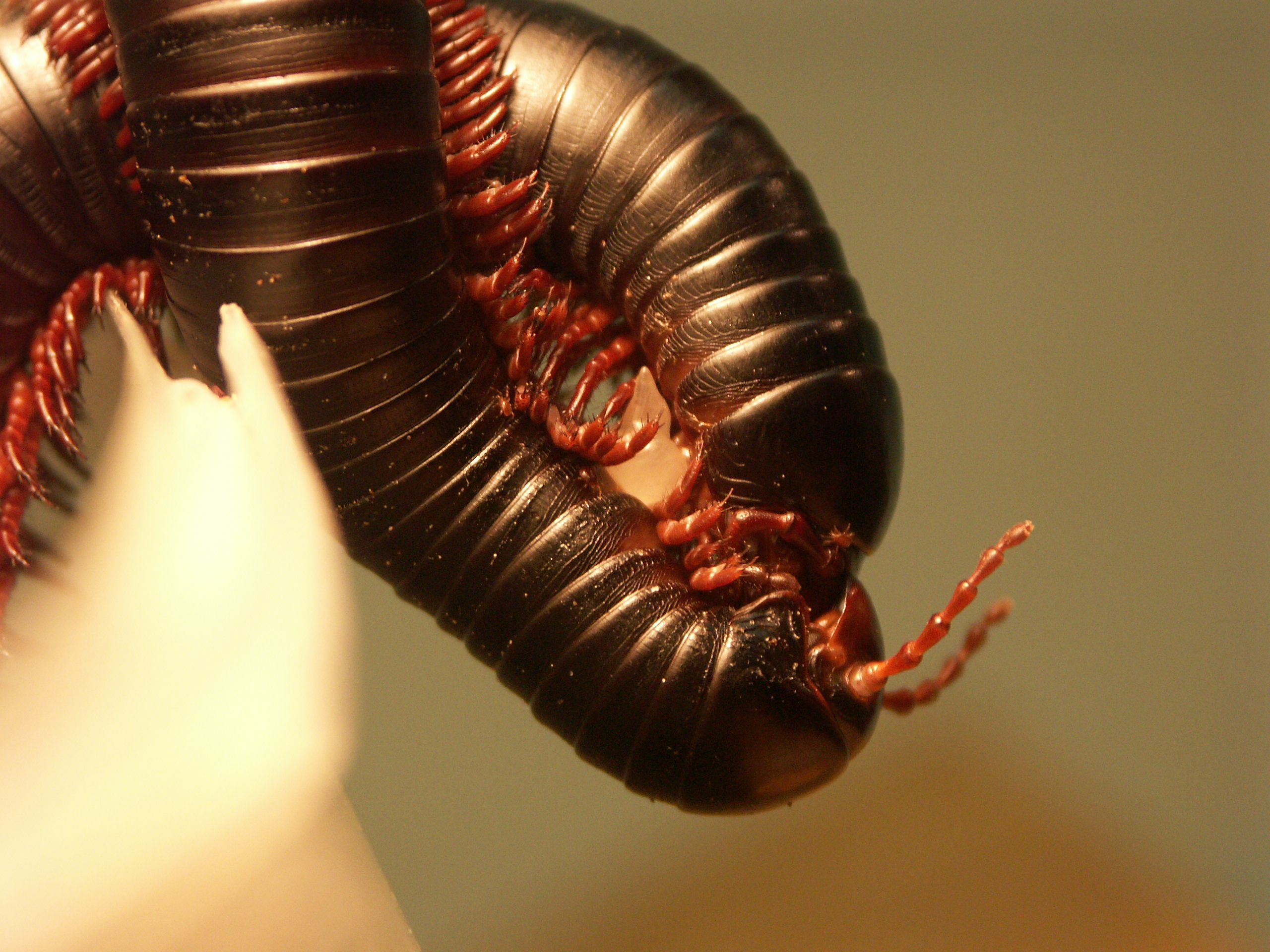 Mating Giant african millipedes, the upper one is female.